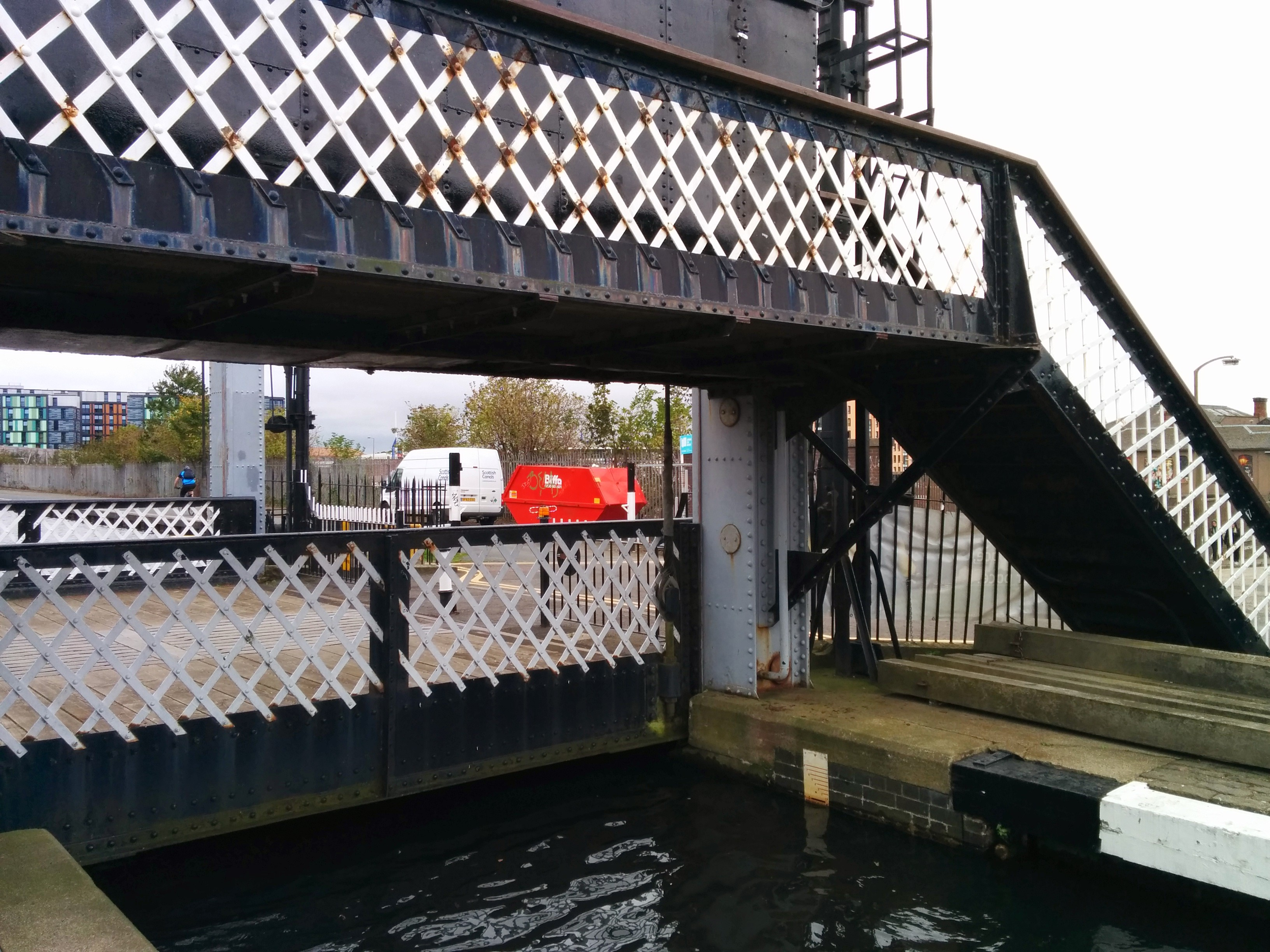 Leamington Lift Bridge September 2014